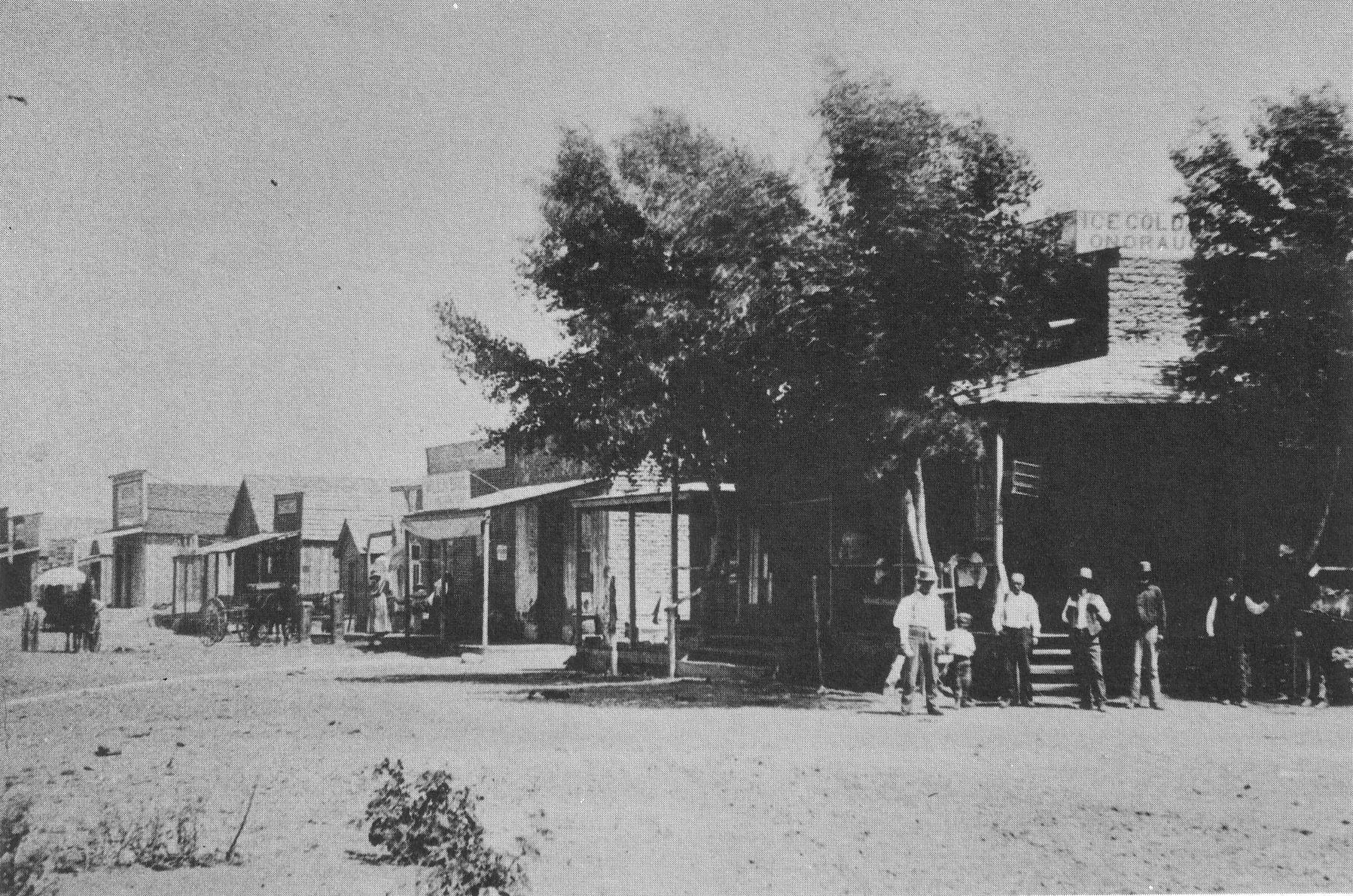 Fairbank, Arizona circa 1890.